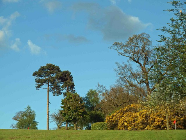 The grounds of Barnsdale Hall and hotel A red flag from the pitch and putt course is just visible.